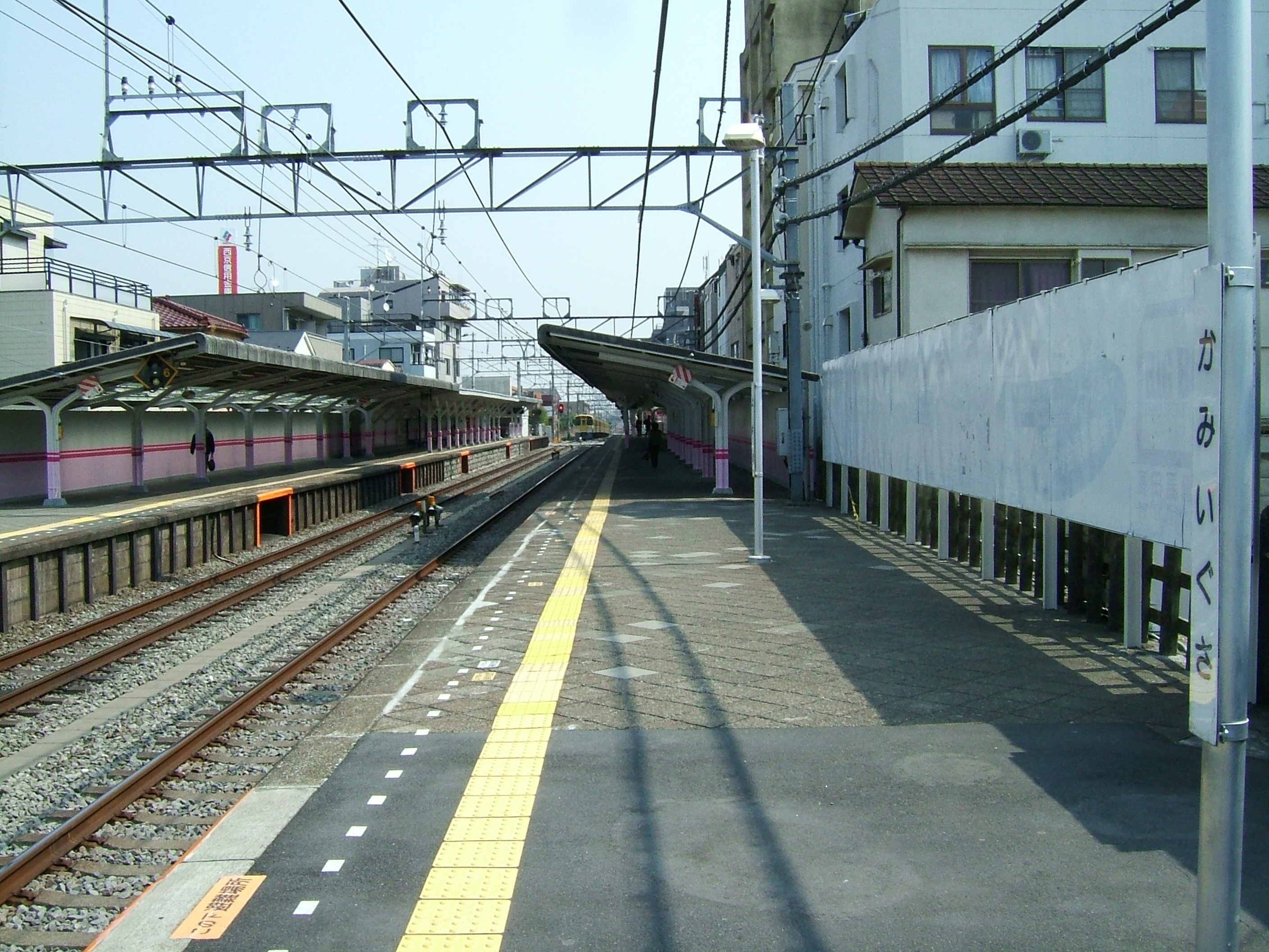 Kami-Igusa Station platform (Seibu Shinjuku Line)